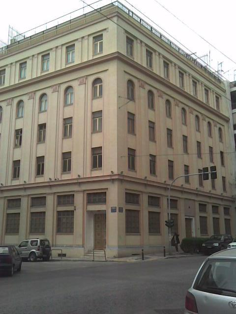 Freemasons’ Hall, Athens, Greece.